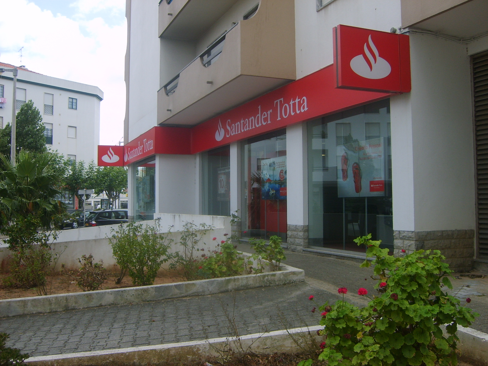 Bank Banco Santander Totta in Lourinhã